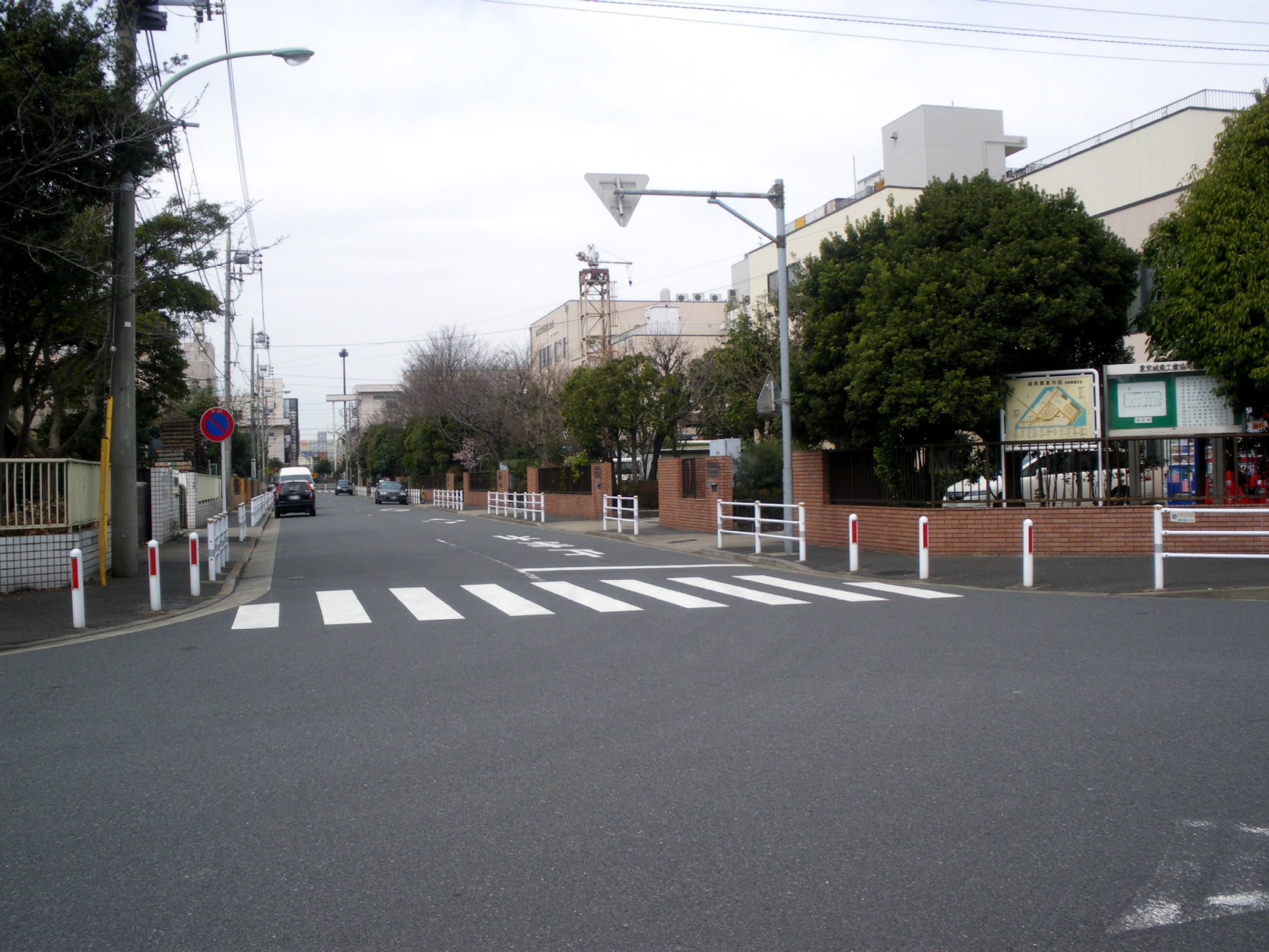 Jonanjima 2-chome(Ota,Tokyo.)